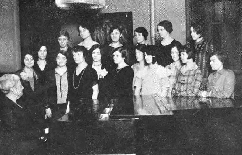 Photo of singing class at Hull House in 1929, led by Eleanor Sophia Smith, who is at the piano.